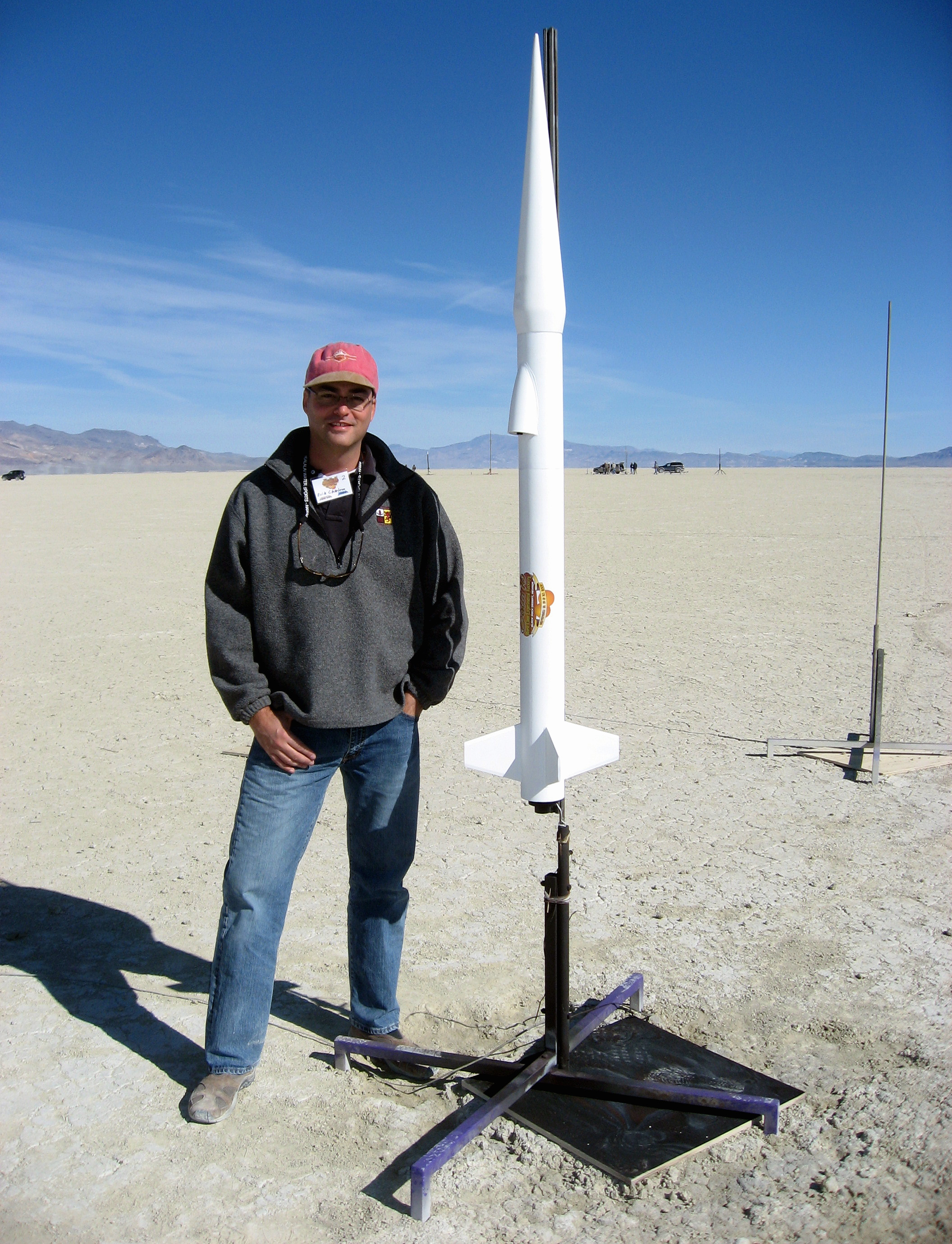 Thanks to Steve Jurvetson for this shot of me with my Polecat Nike kit, upgraded with a "Red Bees" GPS wireless tracking, wireless high-res video system and computer controlled dual deployment (one as a backup), on the pad and ready to go with a K600.